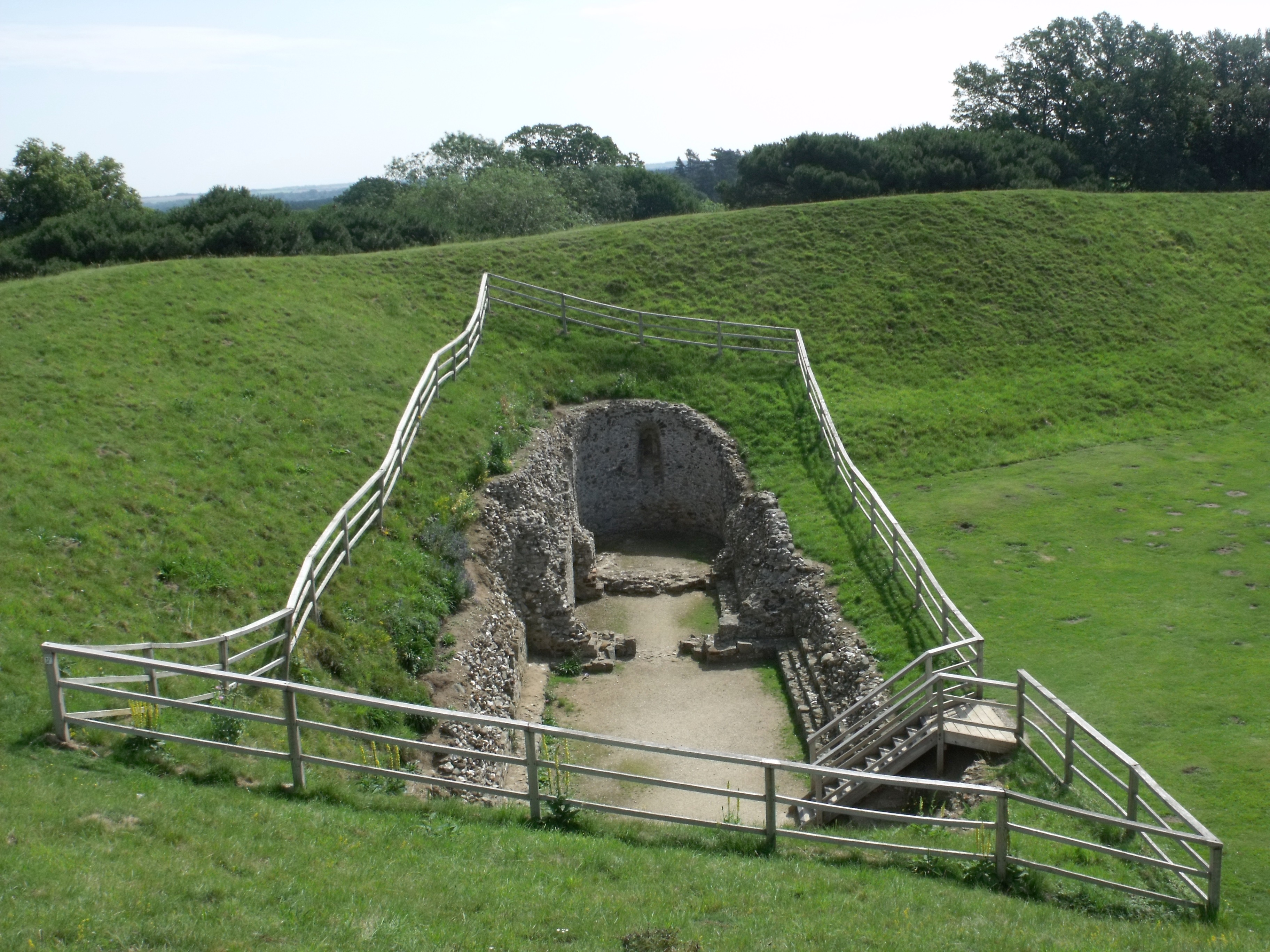 Excavated remains of an 11th-century church in the inner bailey